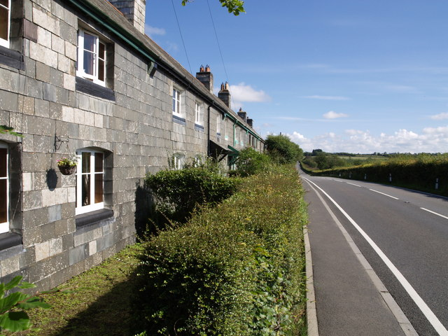 Station Cottages This terrace of six cottages by the A3079 is beside the site of Dunsland Cross station.